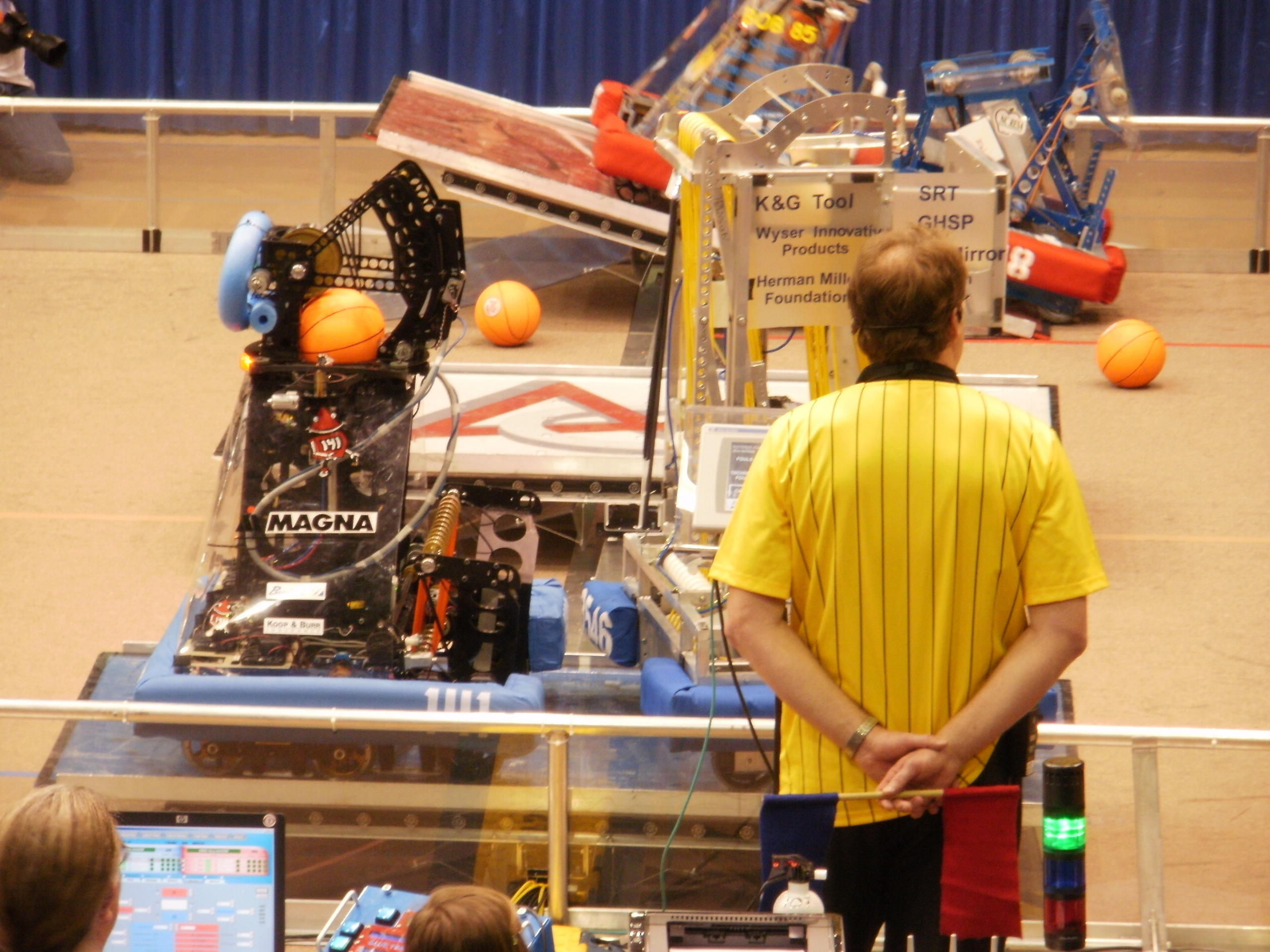 2012 FIRST Robotics Competition game Rebound Rumble showing teams 141 and 3546 balanced on the near bridge.